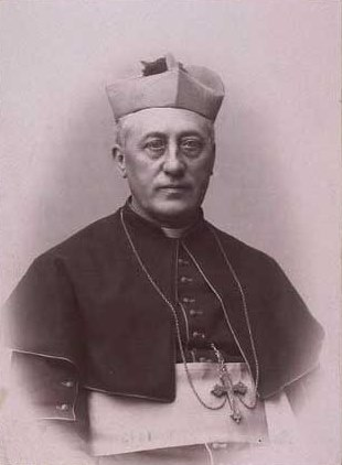 Johannes Theodor Joseph von Euch (1834-1922), German Catholic bishop, Apostolic Vicar for Denmark